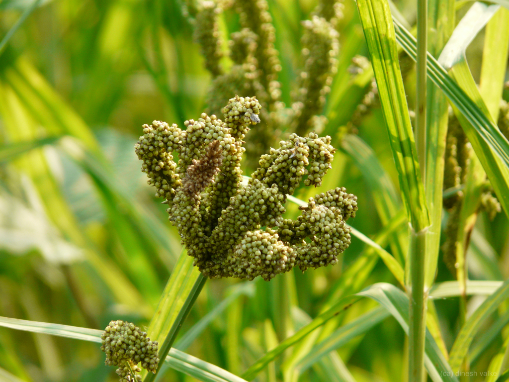 Poaceae (formerly and, also known as Gramineae; grass family) » Eleusine coracana el-YOO-sy-nee -- named for Eleusis, the Greek town where the Temple of Ceres was located kor-uh-KAN-uh -- name derived from Sinhalese kurakkan porridge commonly known as: African millet, coracan, finger millet, natcheny, ragi • Assamese: মৰুবা ধান maruba dhan • Bengali: marwa • Gujarati: બાવટો bavato, નાચણી nachni, નાગલી nagali • Hindi: मंडुआ mandua, मंडवा mandwa, मड़ुआ marua, मड़ुवा maruwa, रागी ragi • Kannada: ರಾಗಿ ragi • Konkani: नांचणी nanchani • Malayalam: രാഗി ragi • Marathi: नाचणी nachani, नागली nagali • Nepalese: मड़ुवा maruwa • Oriya: mandia • Punjabi: ਮੰਦਲ mandal, ਮੰਢੁਲ mandhul, ਮੁੰਡਲ mundal • Rajasthani: रागी ragi • Sanskrit: मधुलिका madhulika, मट्टकम् mattakam, नृत्यकुण्डलक nrutyakundala • Tamil: ஆரியம் aariyam, இராகி iraki, கேழ்வரகு kel-varaku, கேப்பை keppai • Telugu: రాగి ragi, తమిదలు tamidalu • Tibetan: bras ma du lun ga • Urdu: منڐوا mandwa, مڙوا maruwa, راگی ragi Native of: Africa, Yemen; cultivated in Africa, Asia References: Wikipedia • Millet Network of India • PIER • NPGS / GRIN • ENVIS - FRLHT • DDSA